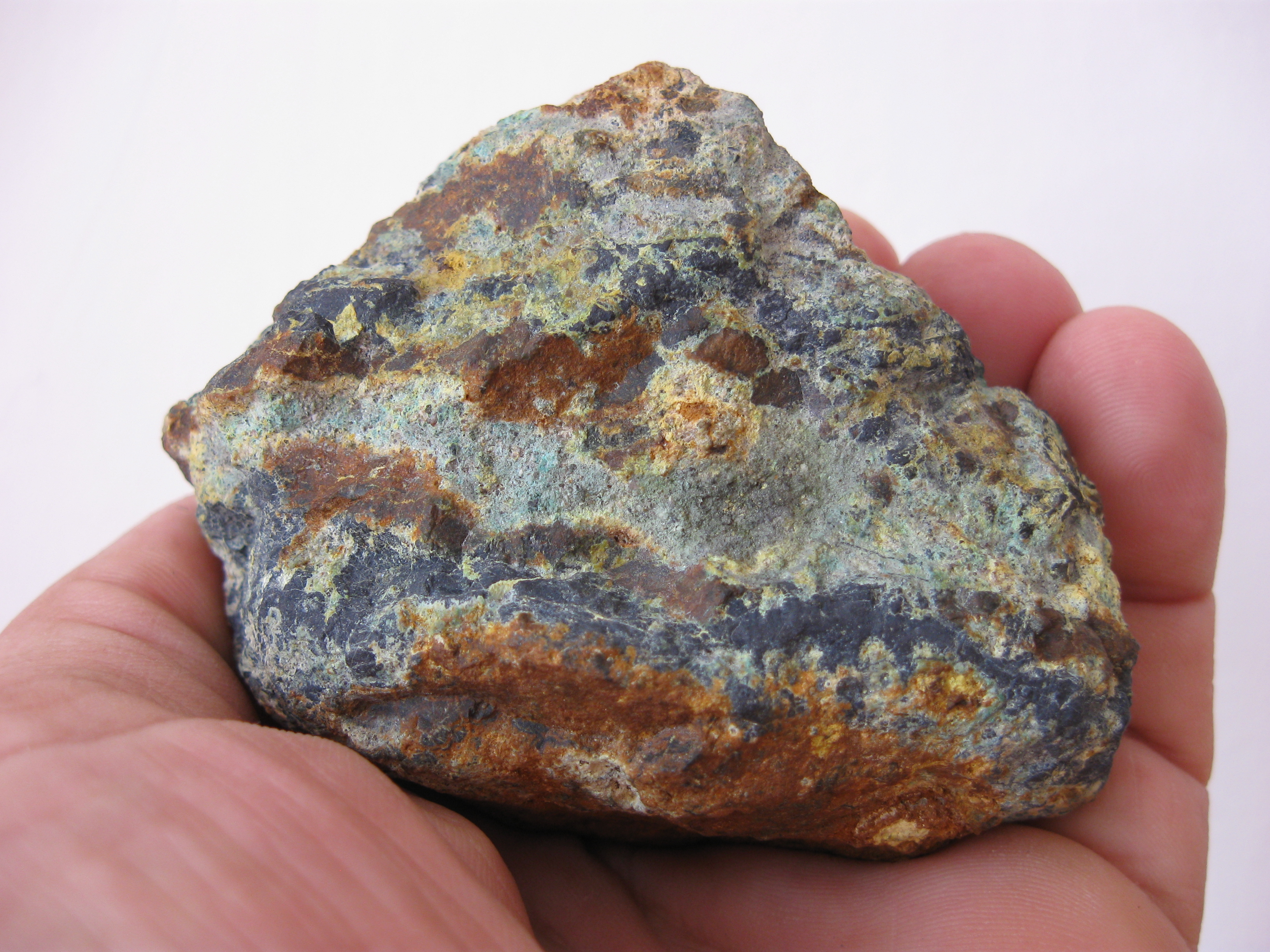 Pitchblende - Zálesí (Javorník) uranium mine, Czech Republic.